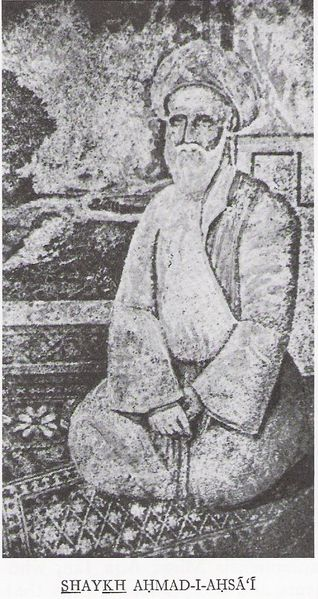 Scanned in from page 1 of: Image is of Shaykh Ahmad, lived in late 18th century